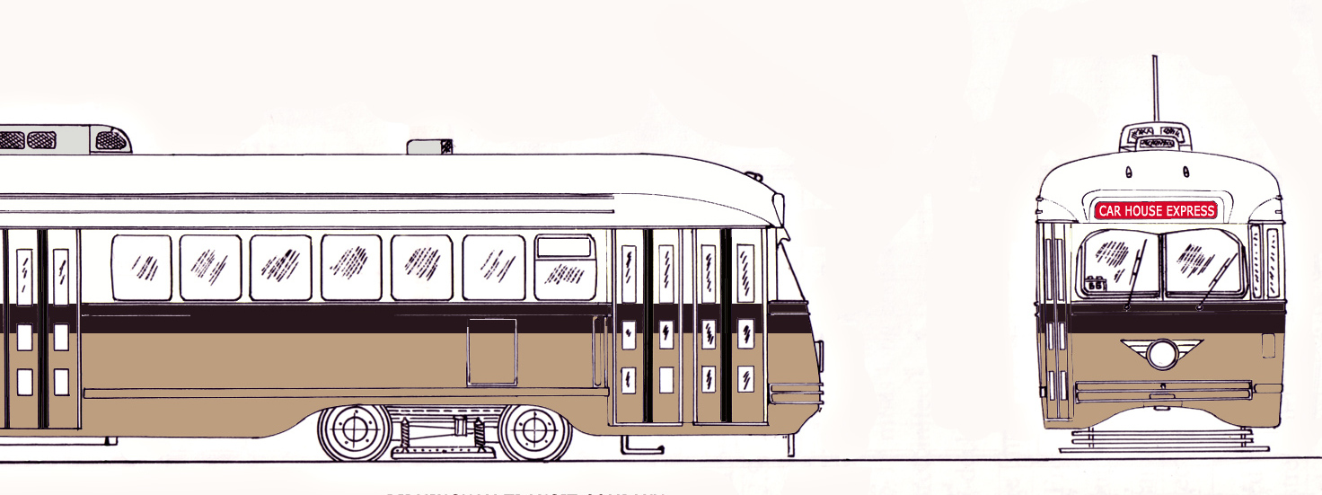 «Birmingham Transit Company : Color scheme 1950-1953» (original caption)